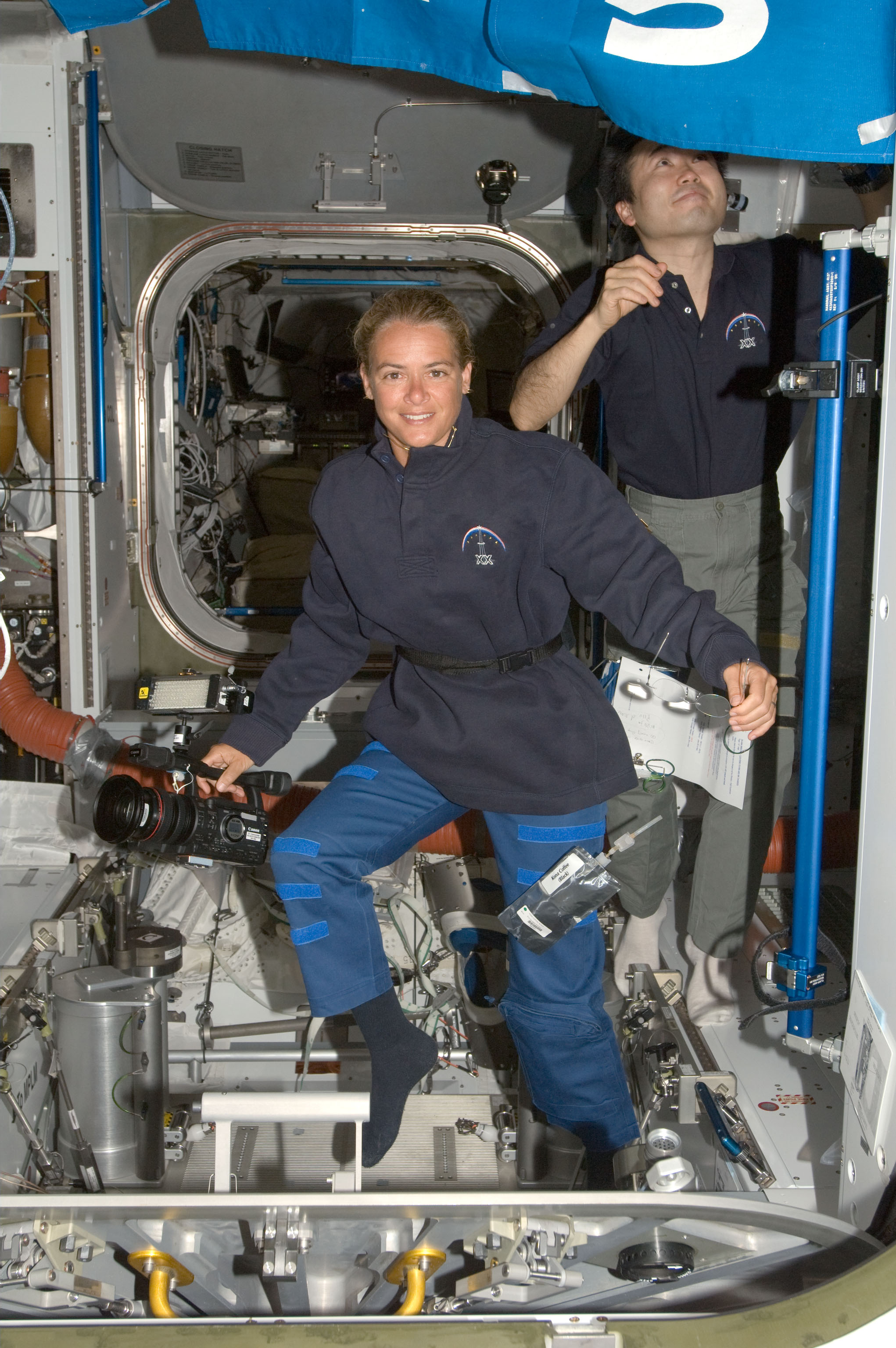 On the second day of joint activities between the STS-127 astronauts and ISS Expedition 20 crewmembers, Canadian Space Agency astronaut Julie Payette and Japanese Aerospace Exploration Agency astronaut Koichi Wakata are pictured onboard the orbital outpost. They are among 11 astronauts and cosmonauts who remained inside the shuttle and station to provide support while two crewmembers performed the first spacewalk to continue work on the station.